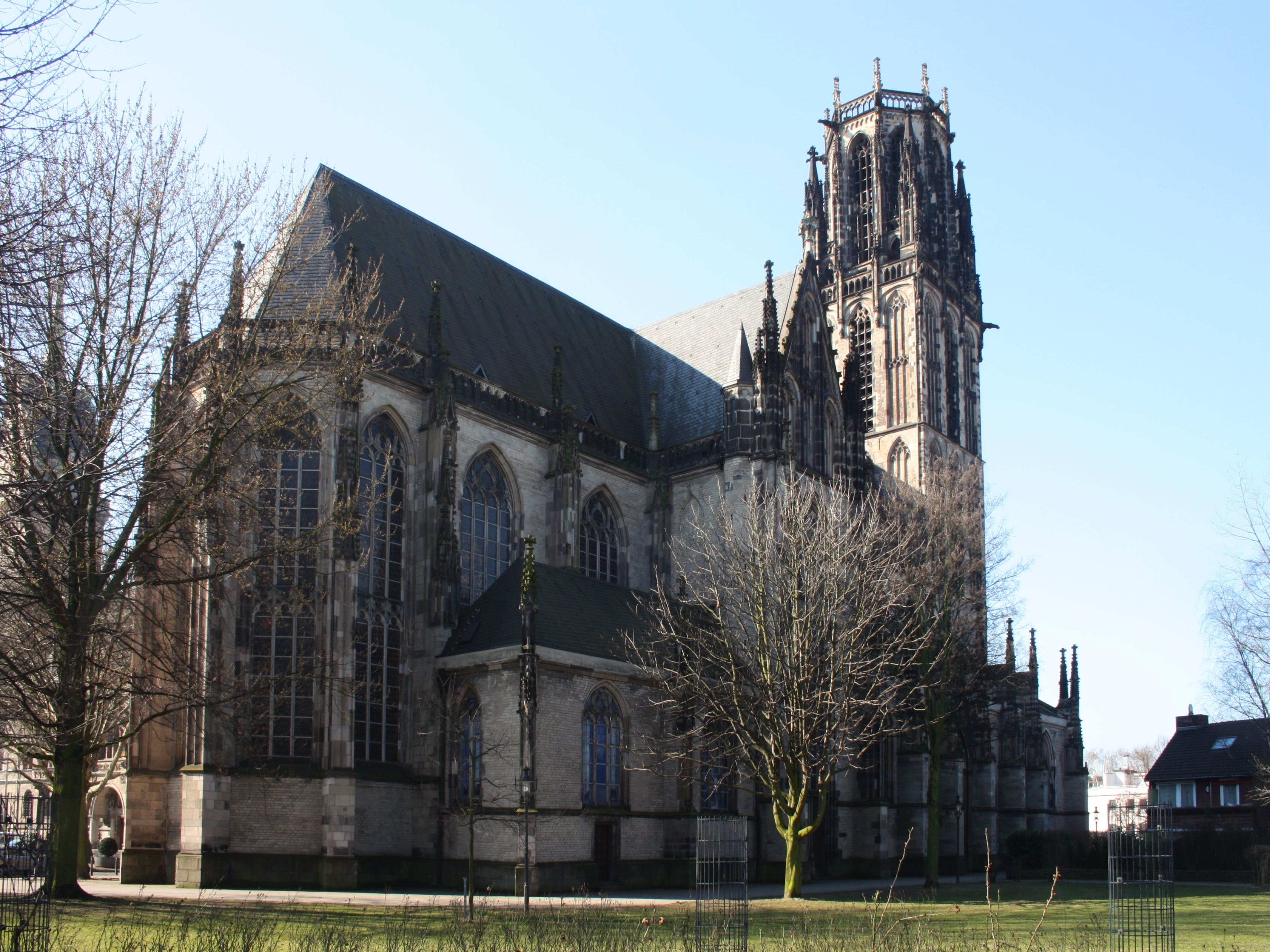 Duisburg, Germany: Church St. Salvator from North-East.